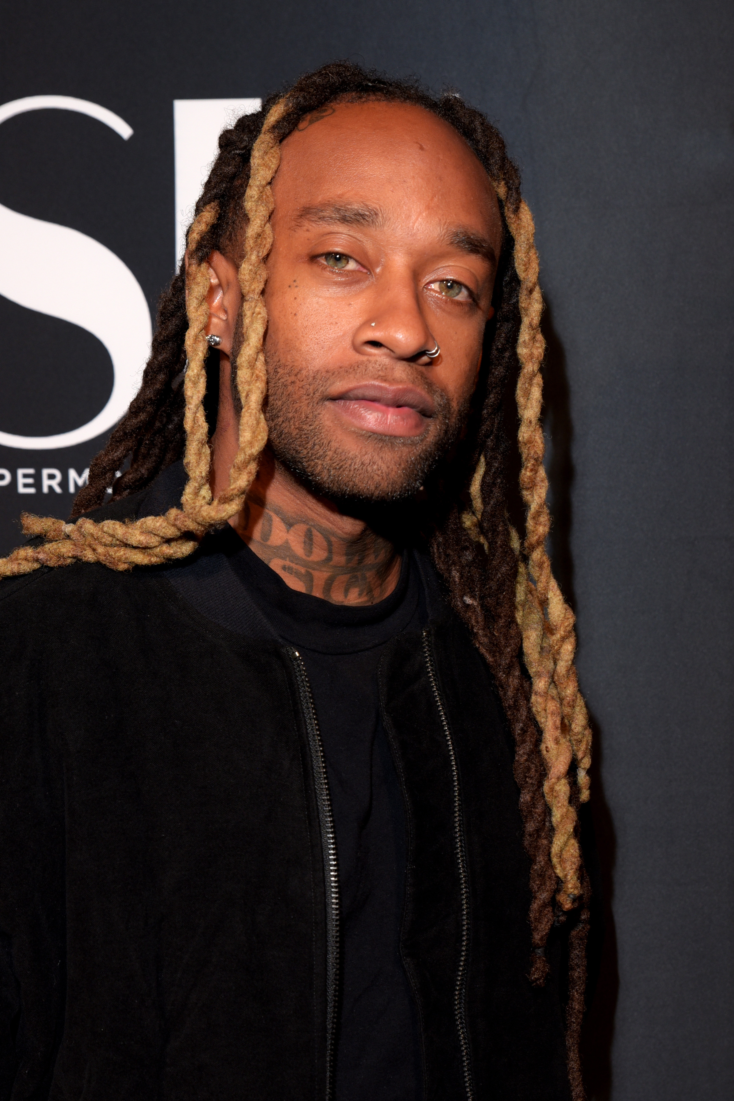 Ty Dolla Sign, Hollywood California on October 13, 2018 - Photo by Glenn Francis of